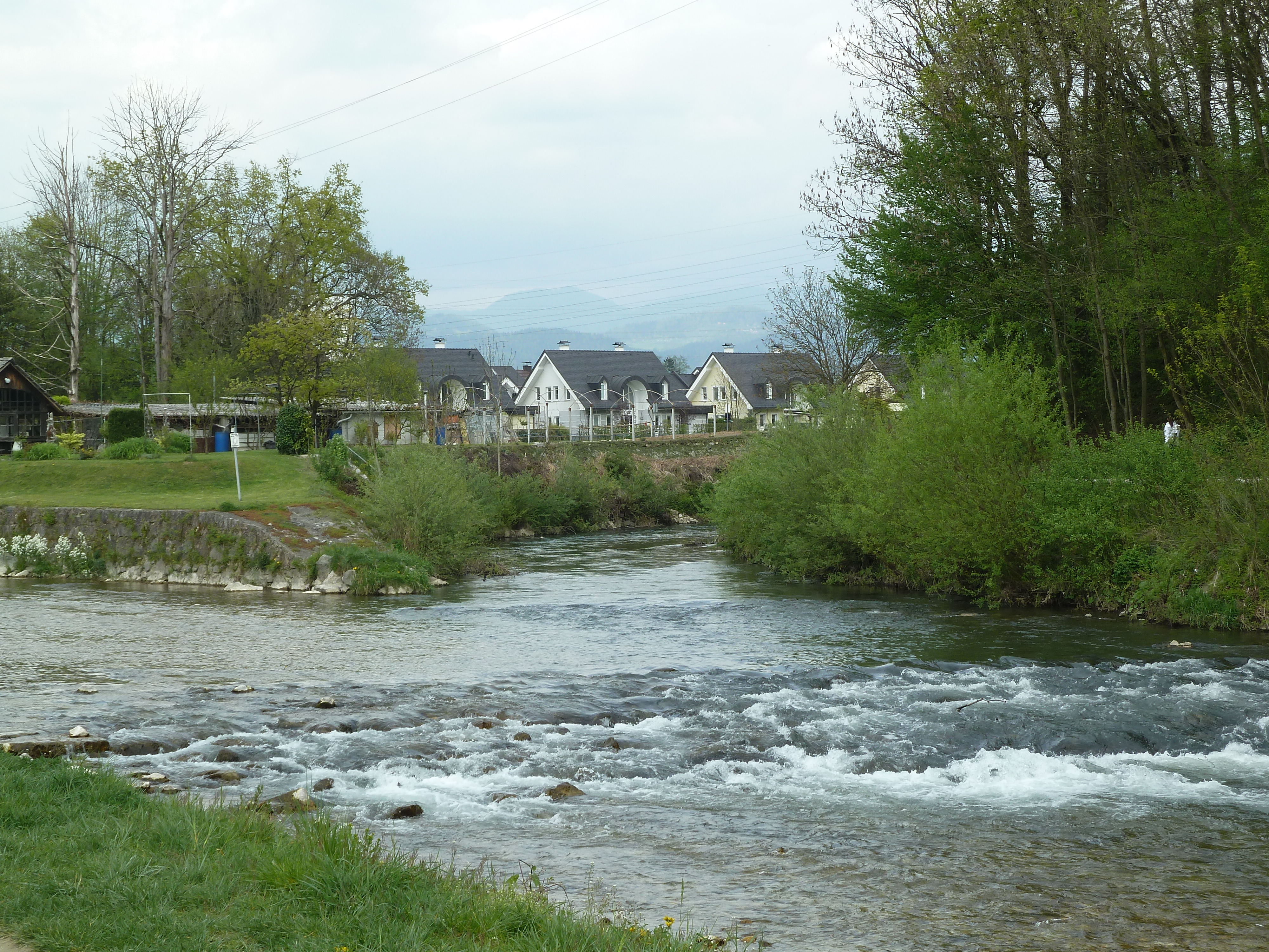 The confluence of Kamniška Bistrica and Rača rivers at Domžale